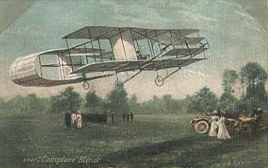 The Bleriot IV depicted in a fanciful contemporary postcard. The aircraft was not capable of anything like this. The Blériot IV replaced the forward annular wing with a conventional biplane wing.